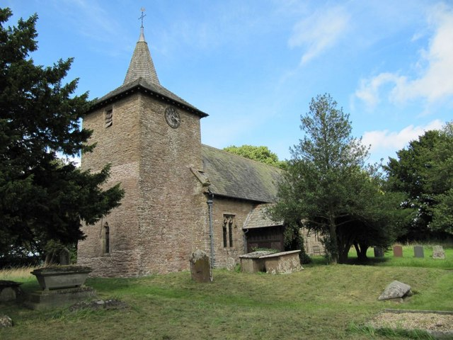 Docklow Church from the west View of Docklow church from the west end.